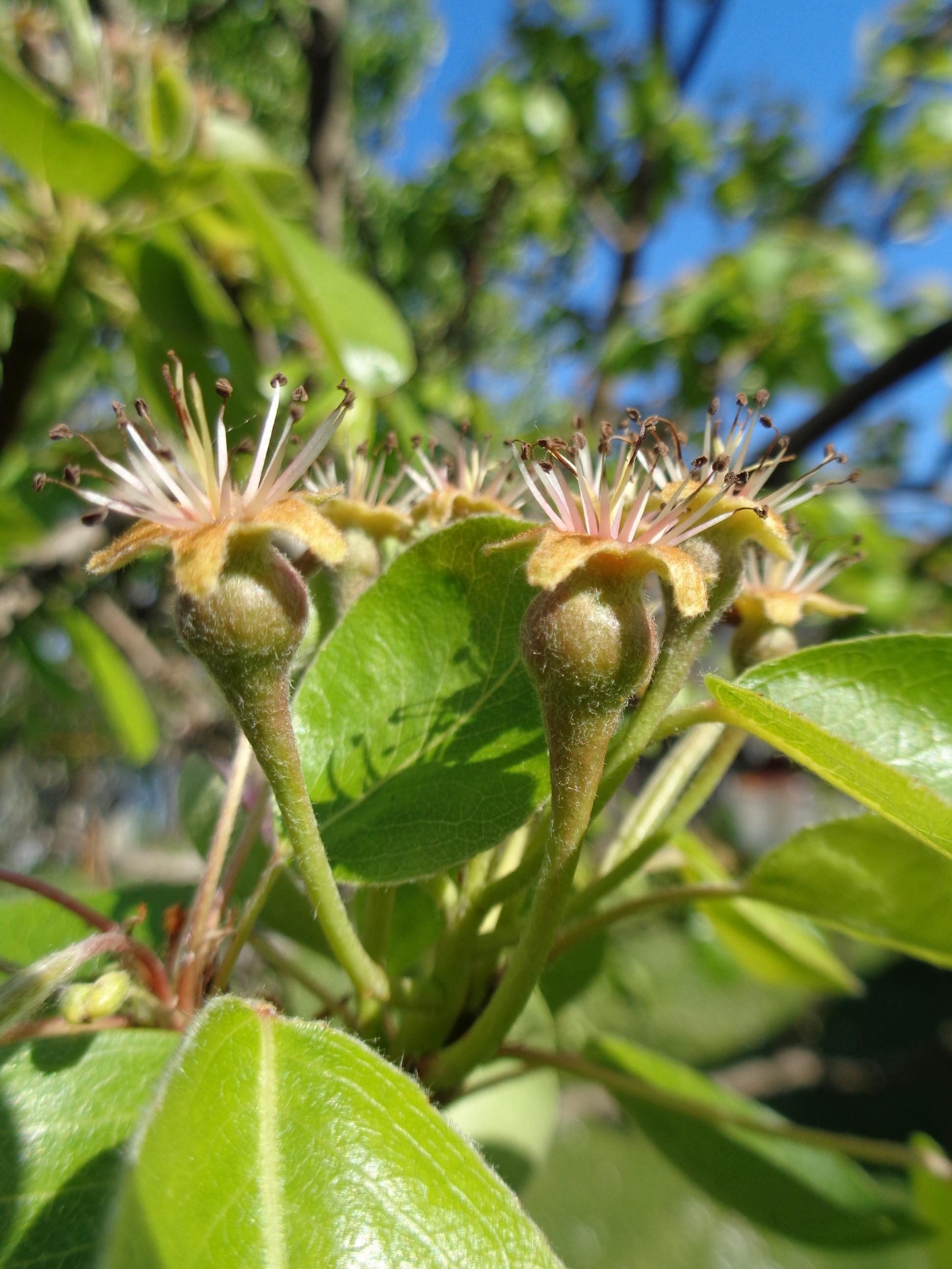 "Butirra Precocial Morettini" pear, early ripening variety, grown in Medjimurje County, northern Croatia - tiny fruits